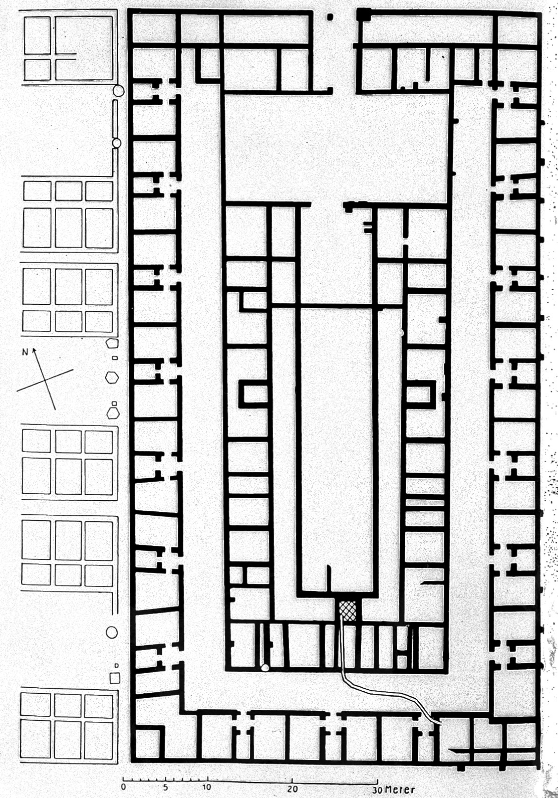 Excavated on the Rhine [Neuss, near Dusseldorf]. Its plan is essentially of a private house in which the rooms are grouped round a central courtyard. Wellcome Images Keywords: Institutions; Hospitals